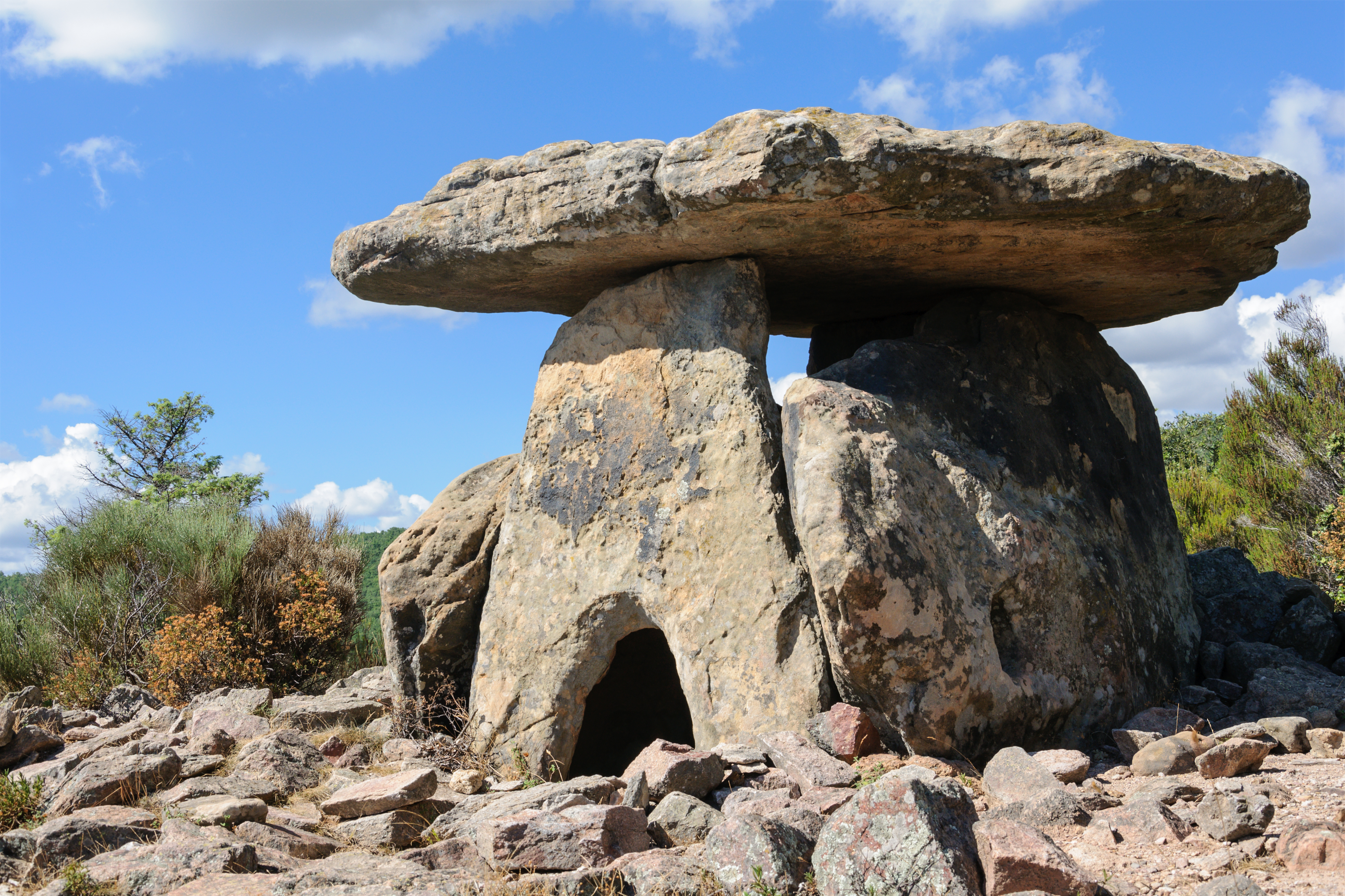 Dolmen de Coste-Rouge, on the estate of Saint-Michel de Grandmont Priory, Soumont, Hérault, France .